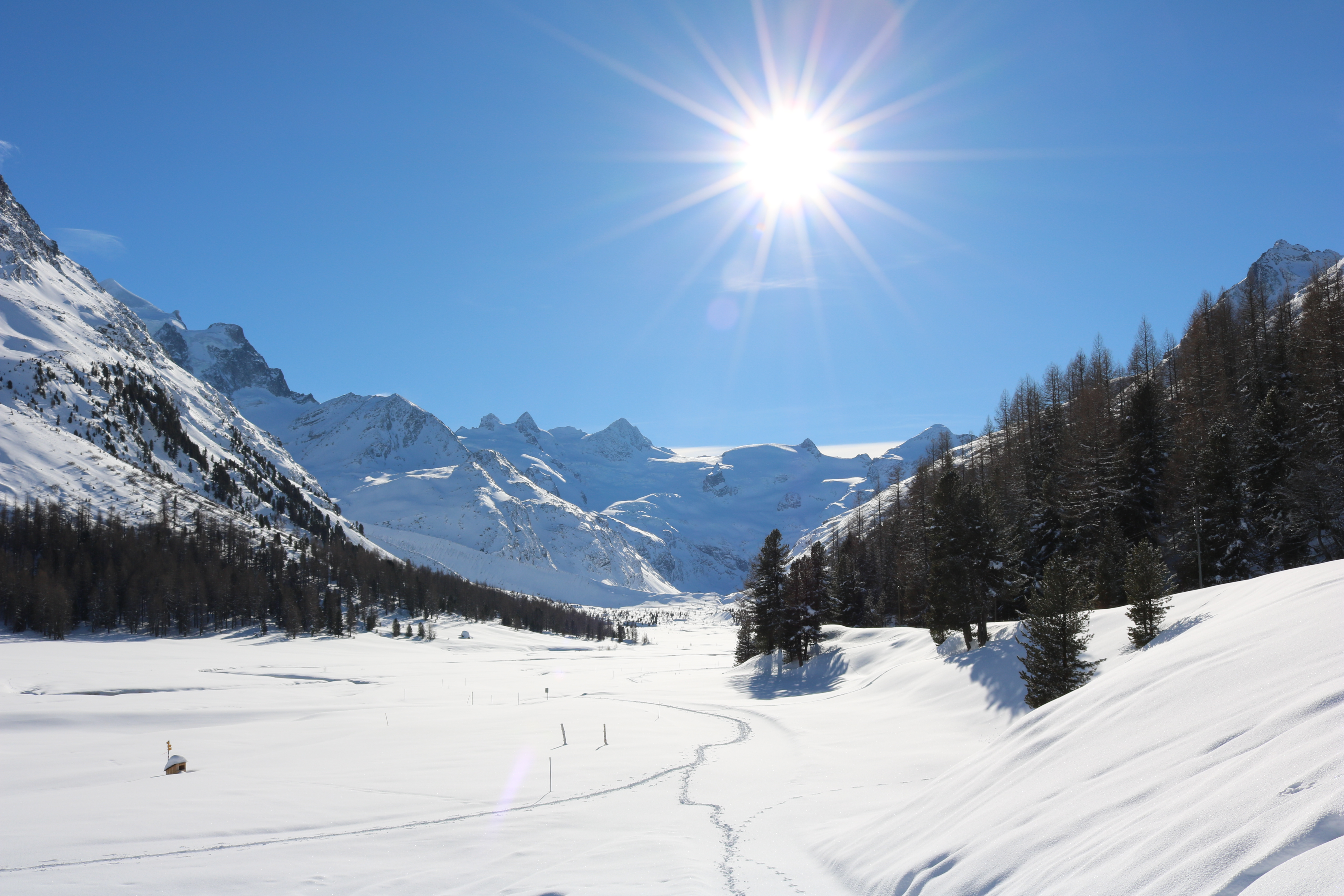 Val Roseg (photo: Daniel van der Ree, 23 january 2018)